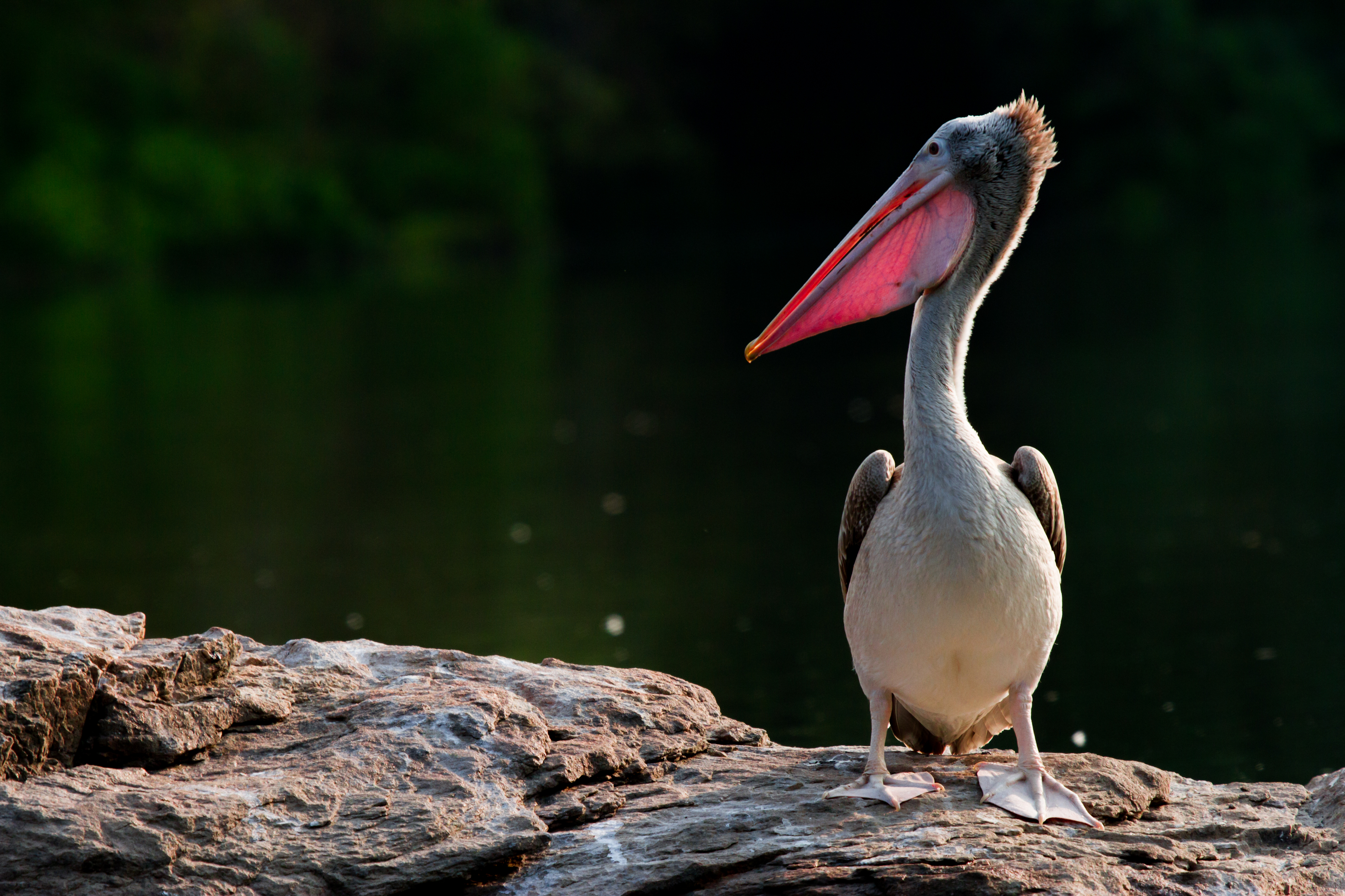 Spot-billed Pelican (Pelecanus philippensis).